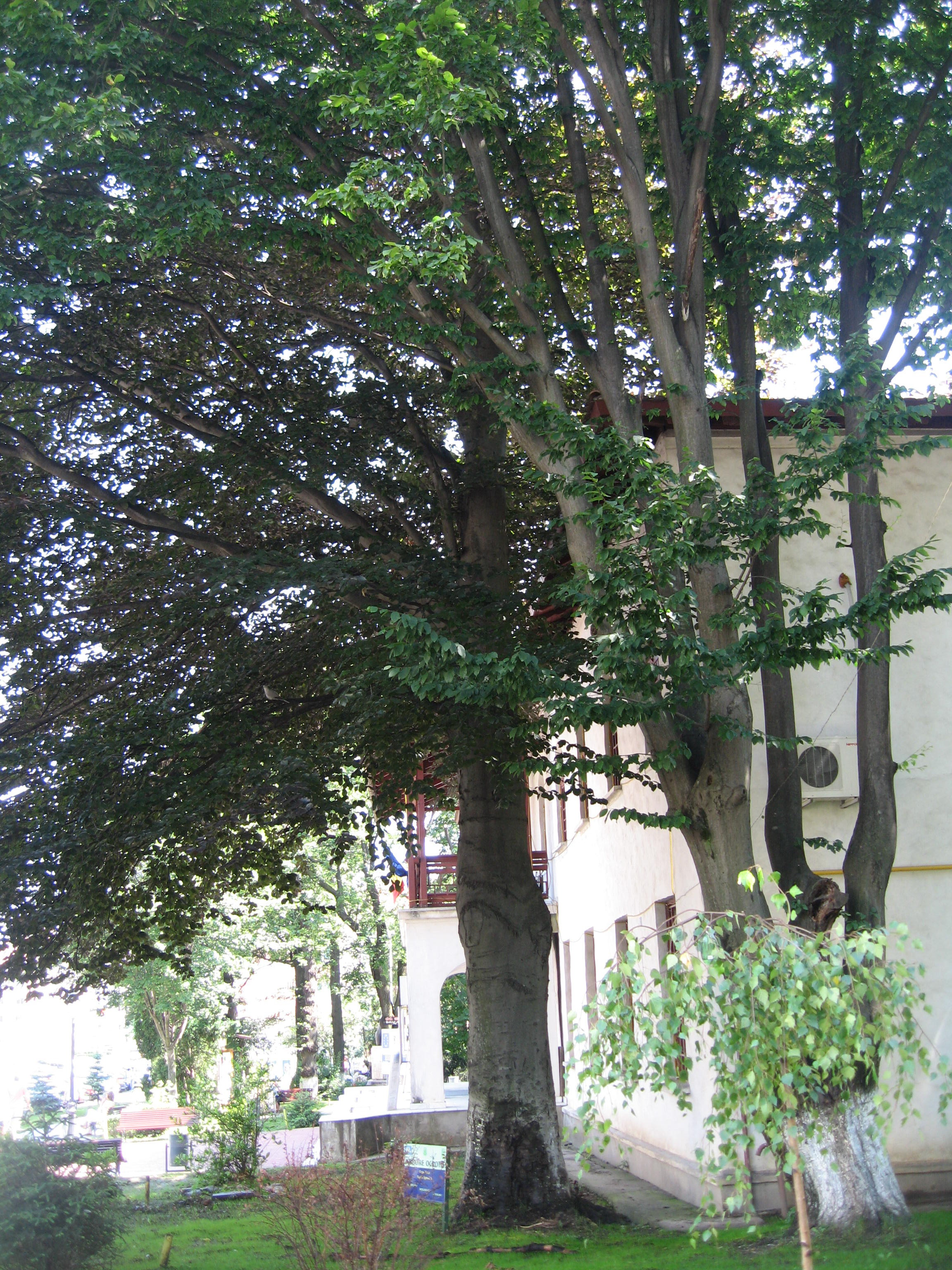 The Natural Sciences Museum in Suceava and the red beech (natural monument).